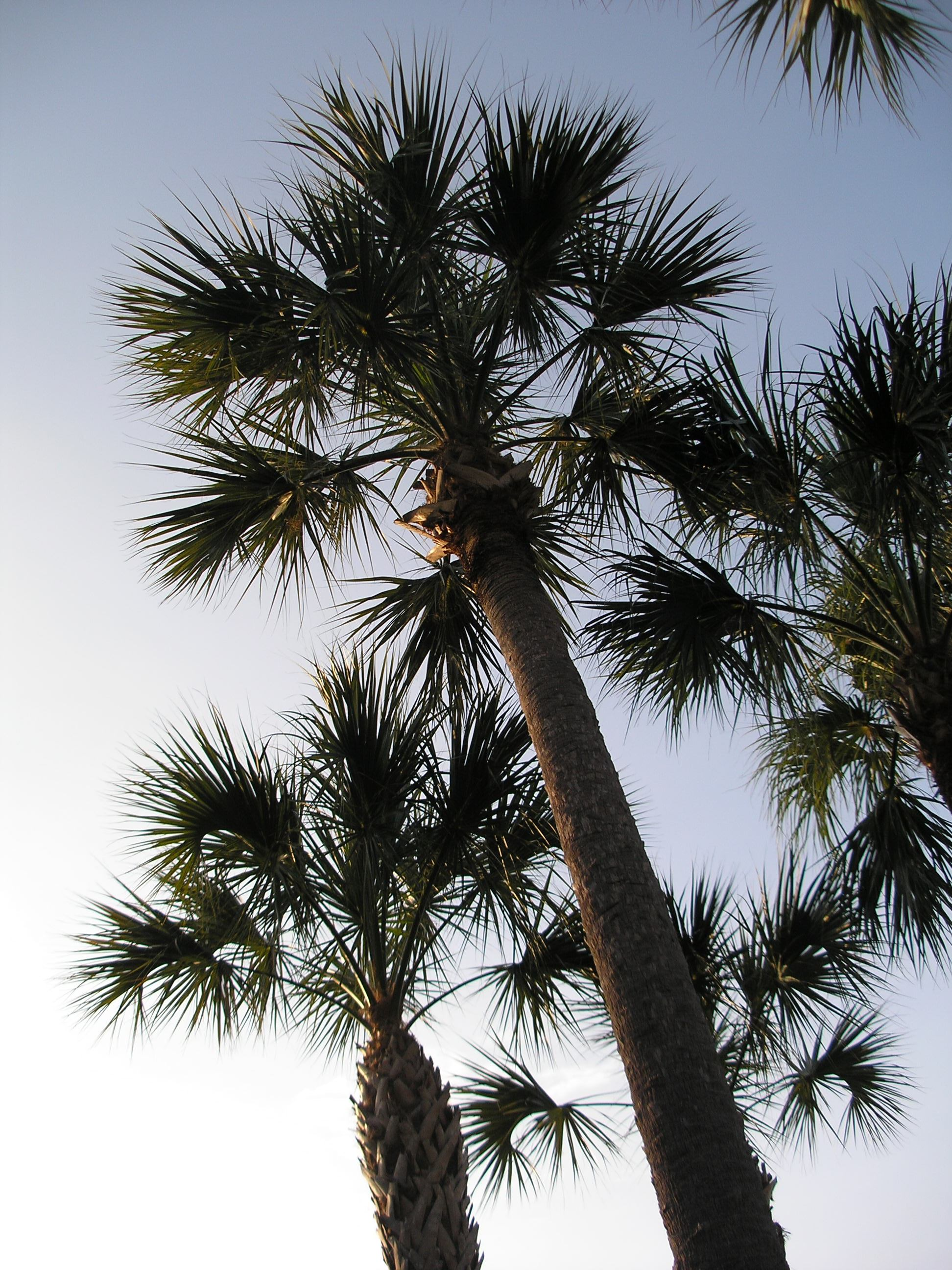 A Sabal Palm Tree.